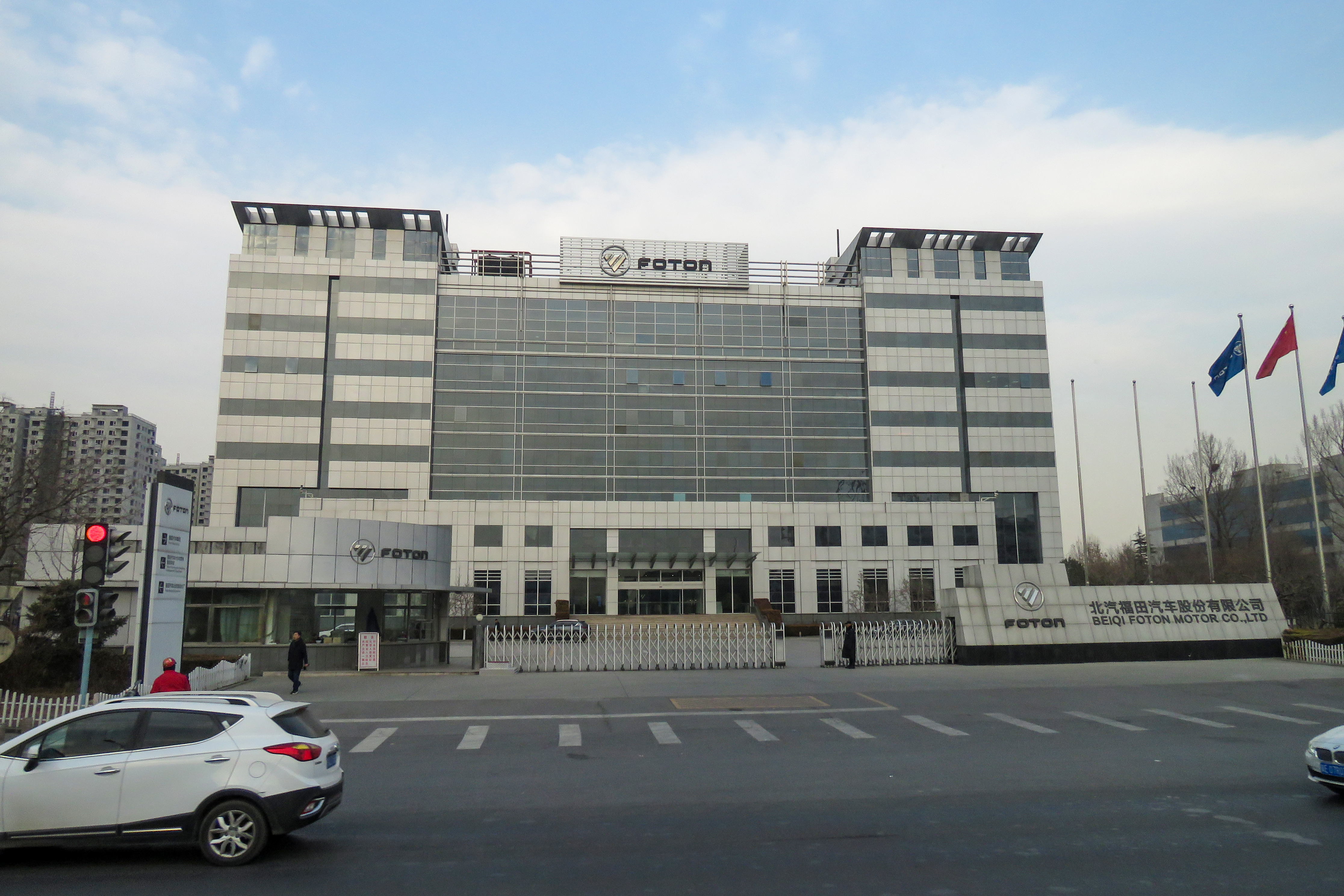 Taken from 887 when passing Laoniuwan.